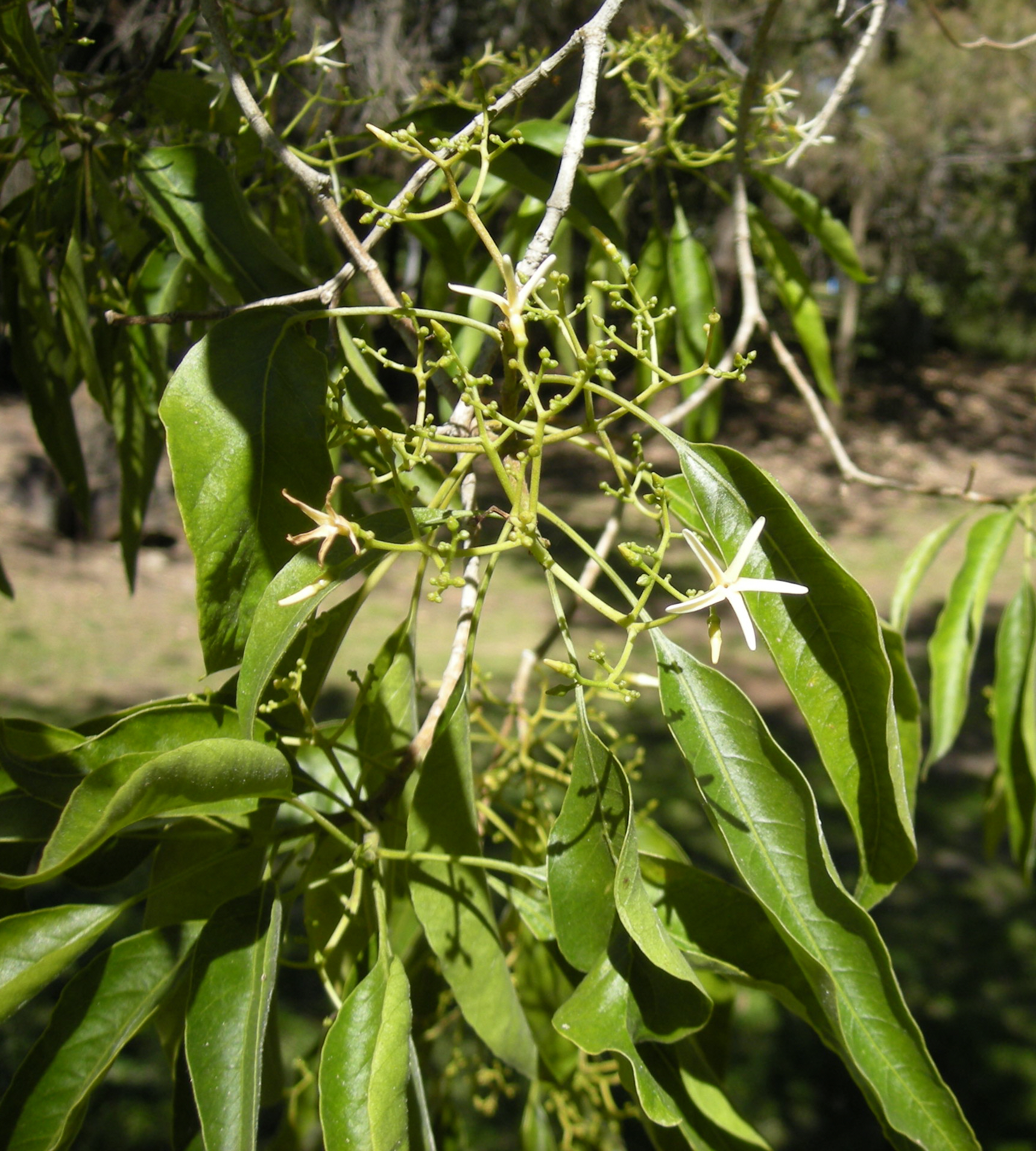 Alstonia constricta flowers. Mount Archer National Park, Rockhampton, Queensland.